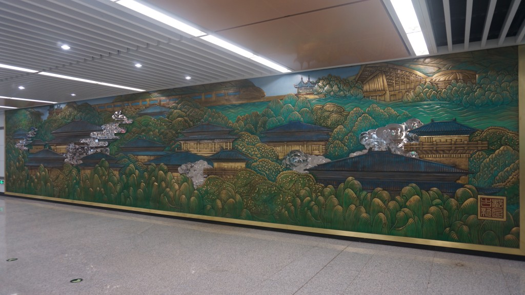 Houweizhai Station Art